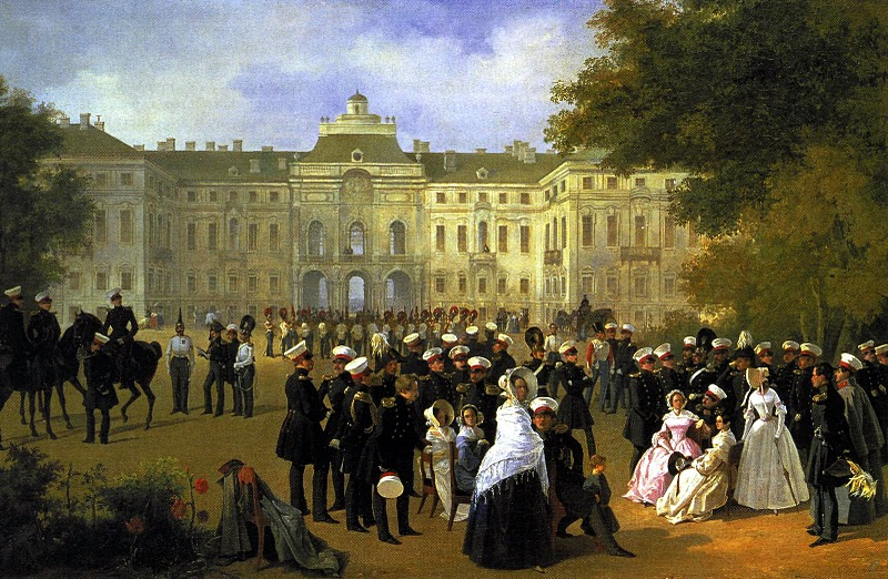 Leib-Guards Reception at the Constantine Palace in Strelna, St. Petersburg. A 19th-century painting.